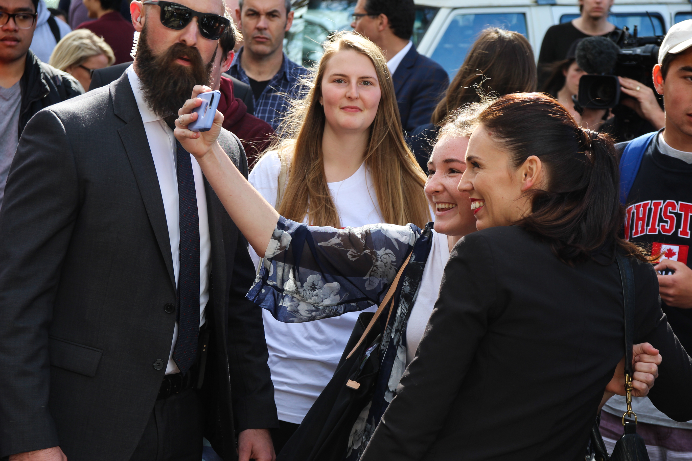 Jacinda Ardern, leader of the NZ Labour Party, was at the University of Auckland Quad on 1 September 2017.